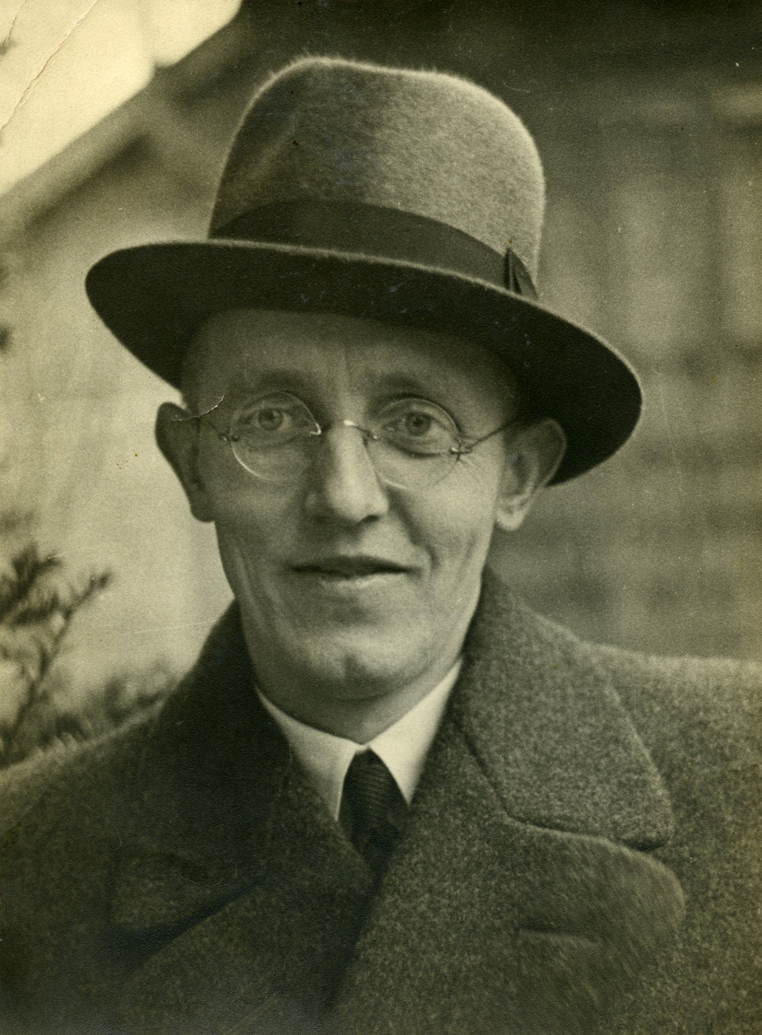 Rudolf Ottmer with hat